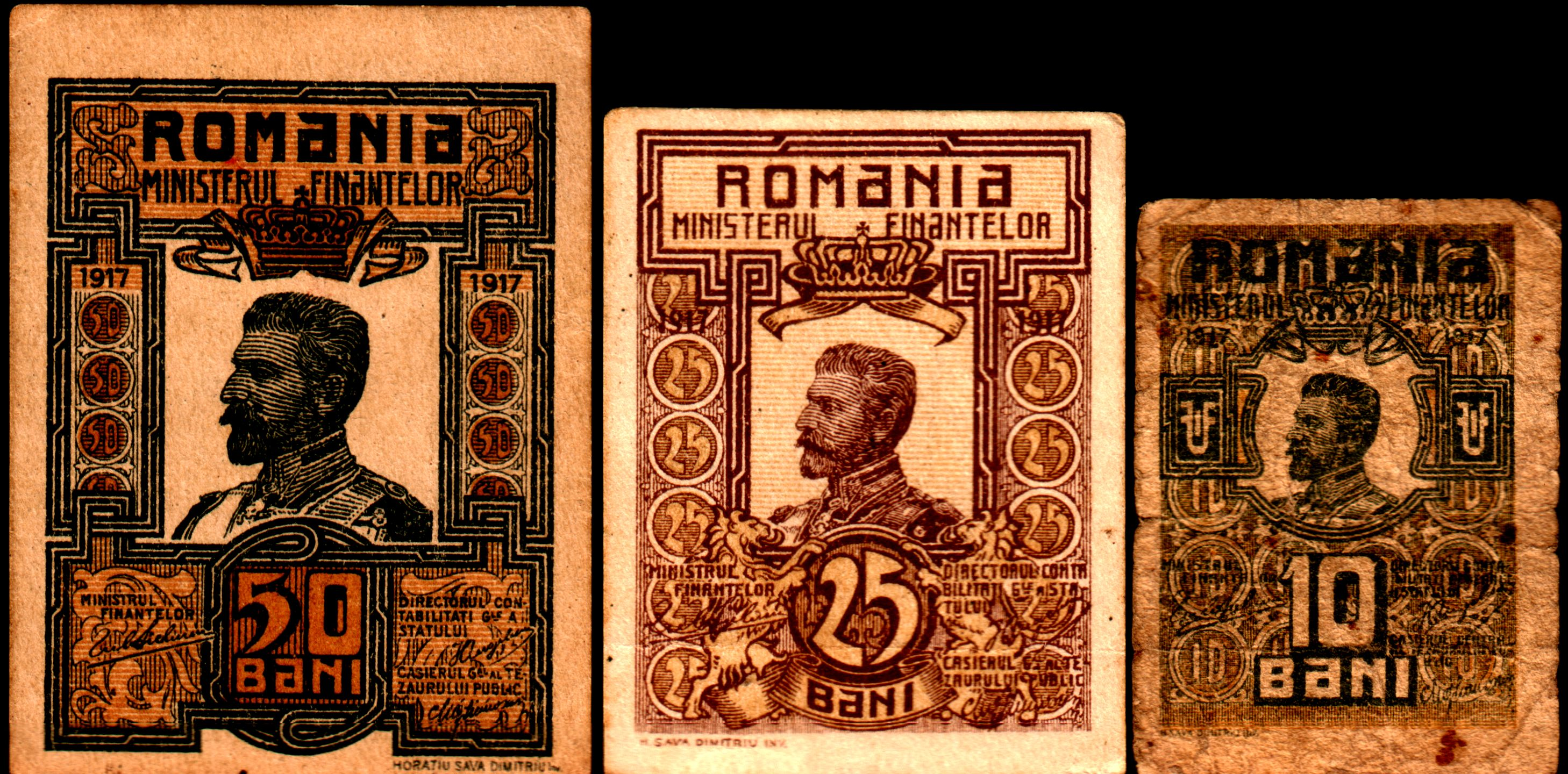 1000 Romanian leu from 1917 - averse and reverse